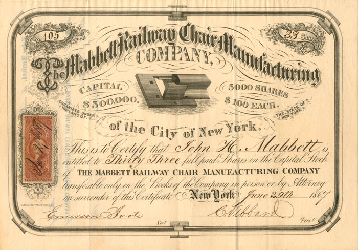 Share certificate from the "Mabbett Railway Chair Manufacturing Company of the City of New York", issued to John M. Mabbett, and signed by C. Vibbard on Jun 29, 1867.